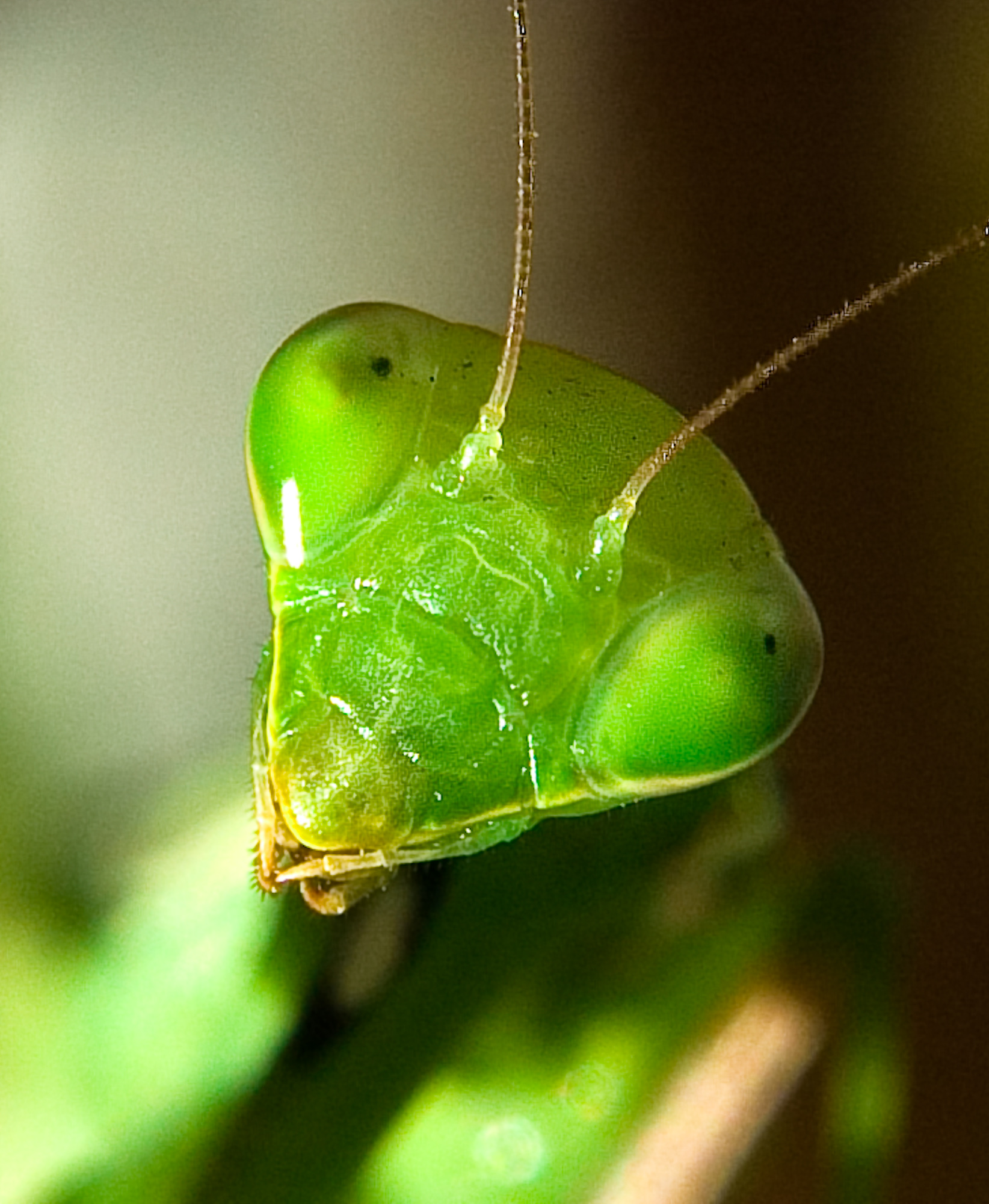 praying mantis head close-up